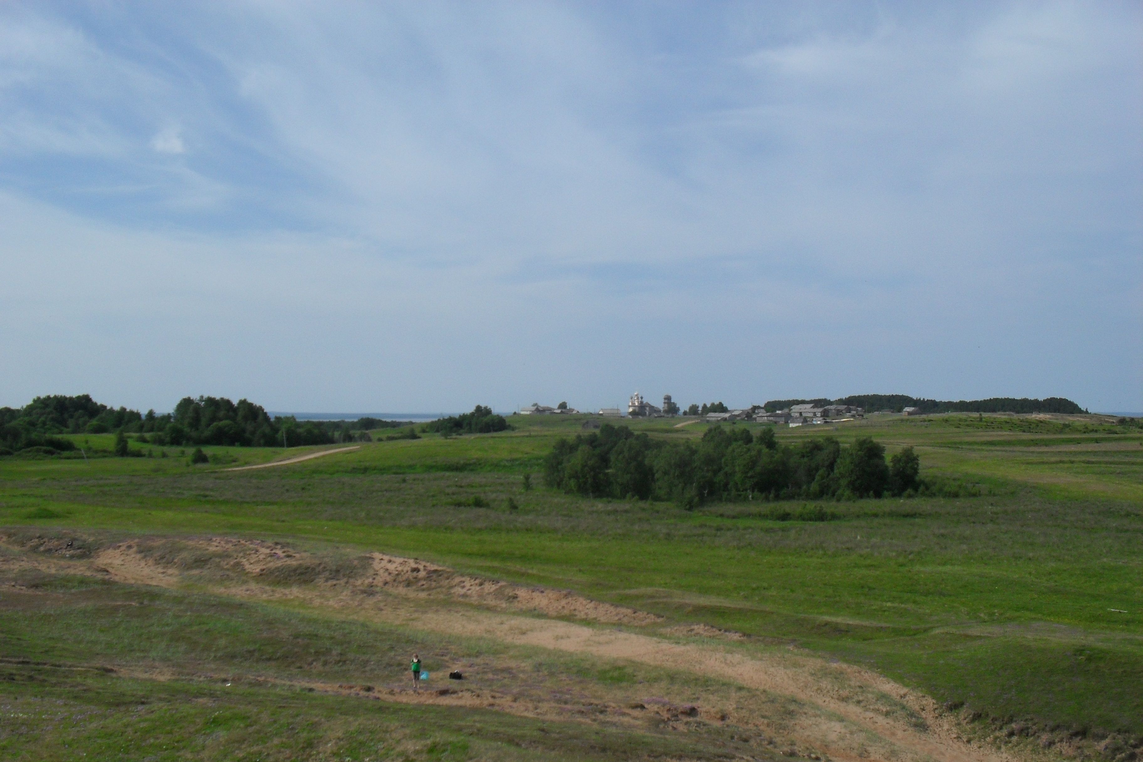 Vorzogory (Kondratyevskaya)